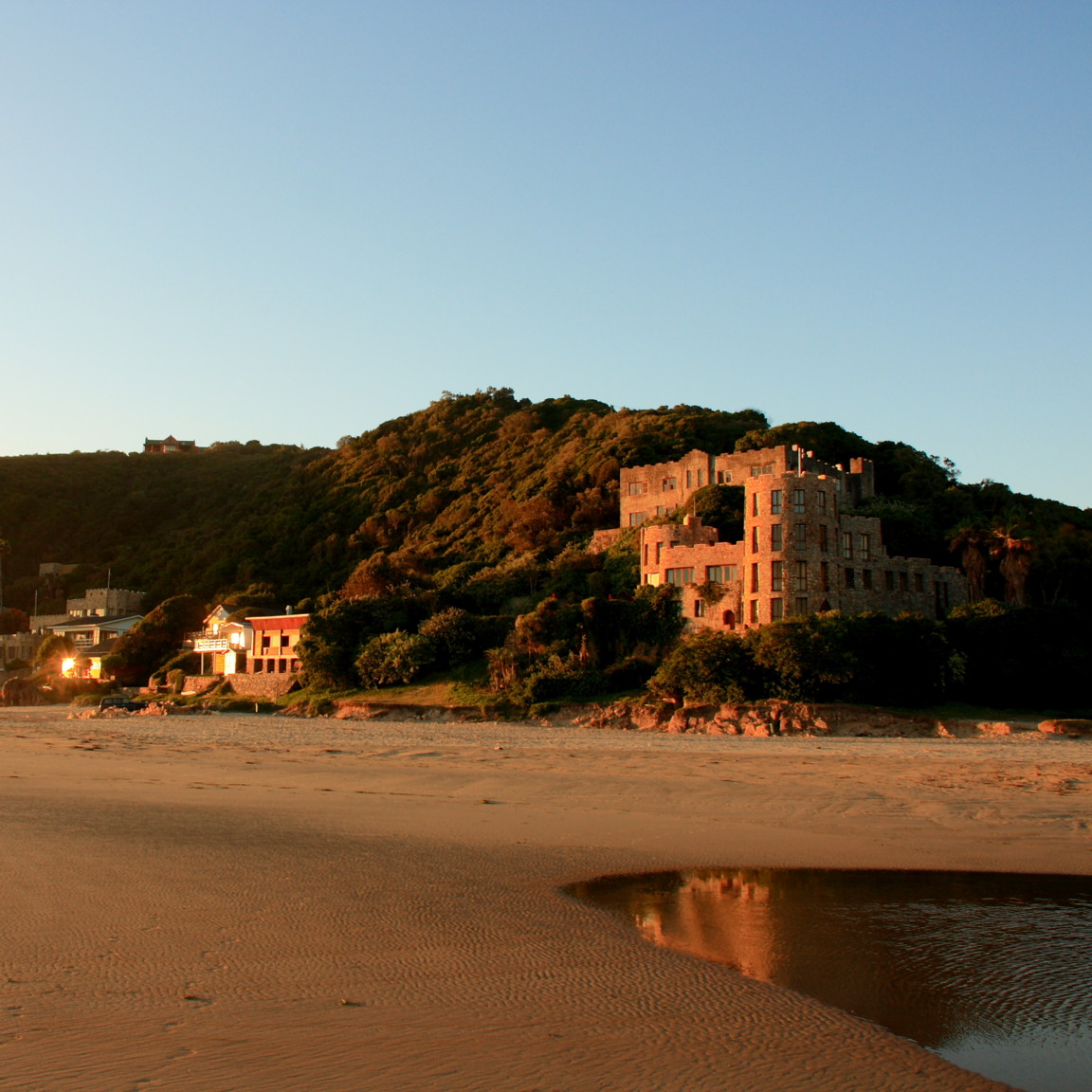 Noetzie beach at sundown dominated by Montrose Castle.